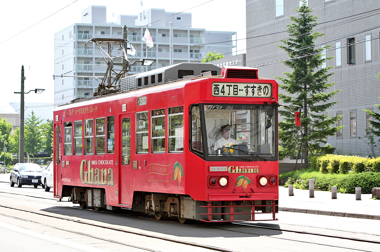 Sapporo Tram Type 8500 ( No. 8502, Chuo toshokan mae - Densha jigyosho mae ).